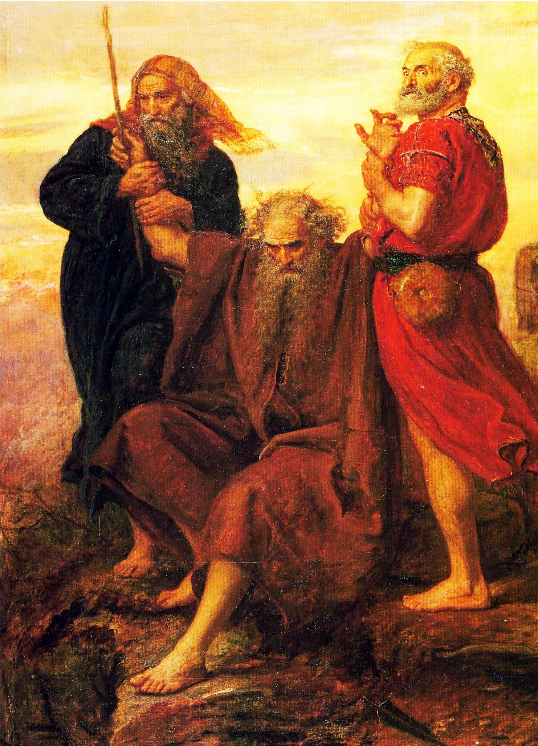 Moses, supported by Aaron and Hur, is praying for victory (Painting by J.E. Millais, 1923)